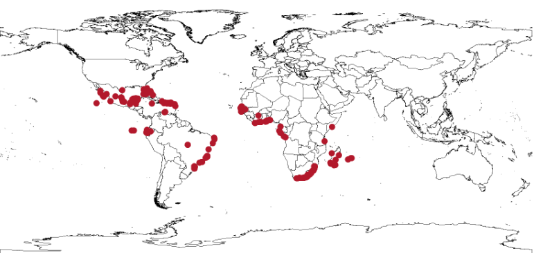 Scaevola plumieri occurrence data: (31st May 2019) GBIF Occurrence Download